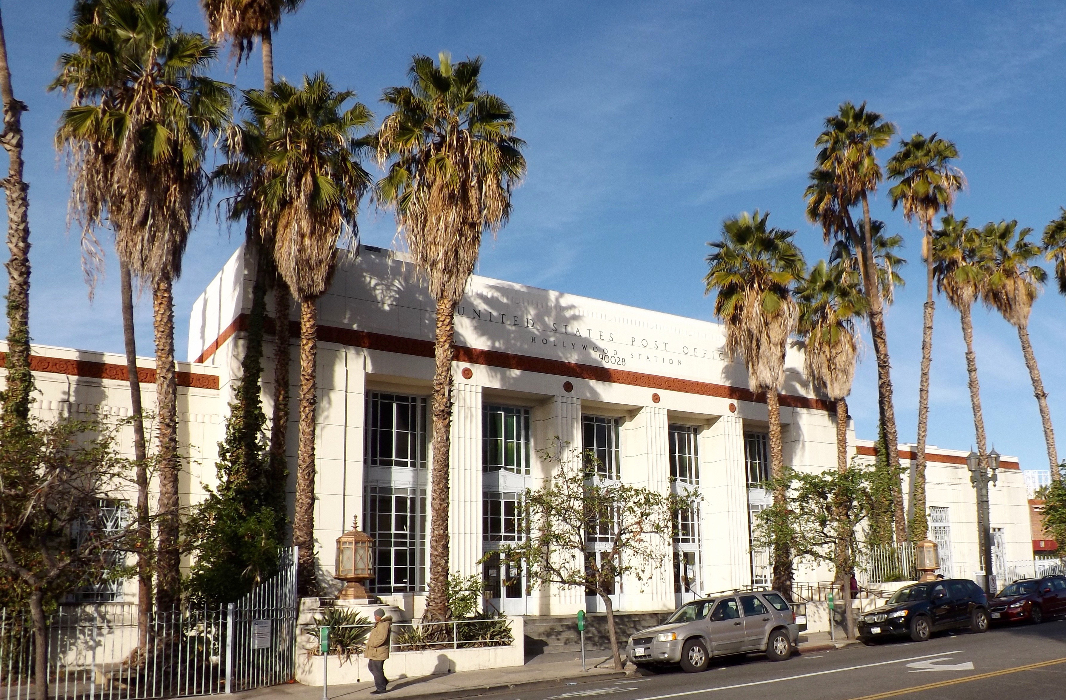 Hollywood, post office building, with palm trees, 2015 Other information Photo by George Garrigues.